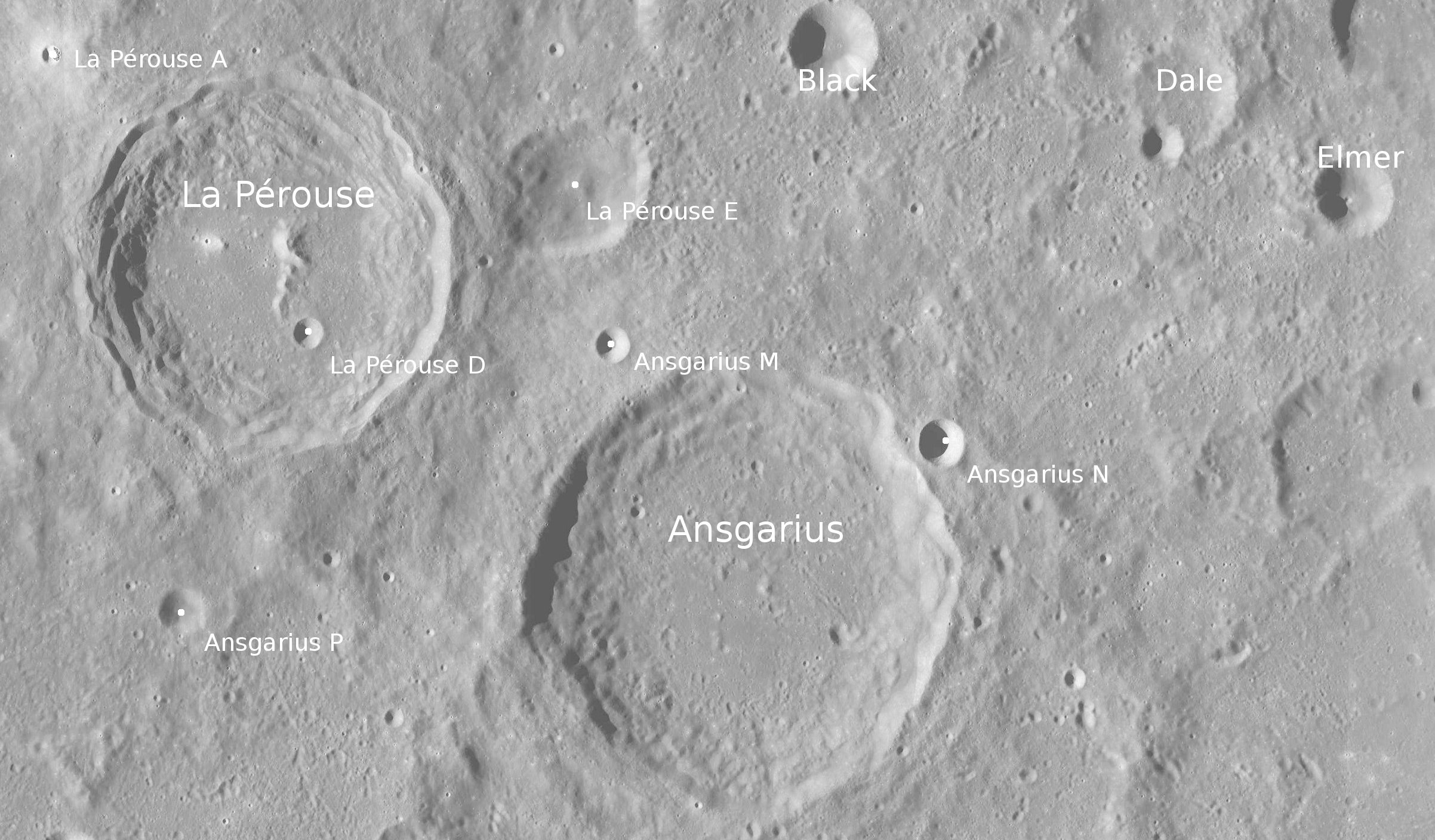 Craters La Pérouse and Ansgarius (detail of LRO - WAC global moon mosaic; Mercator projection)